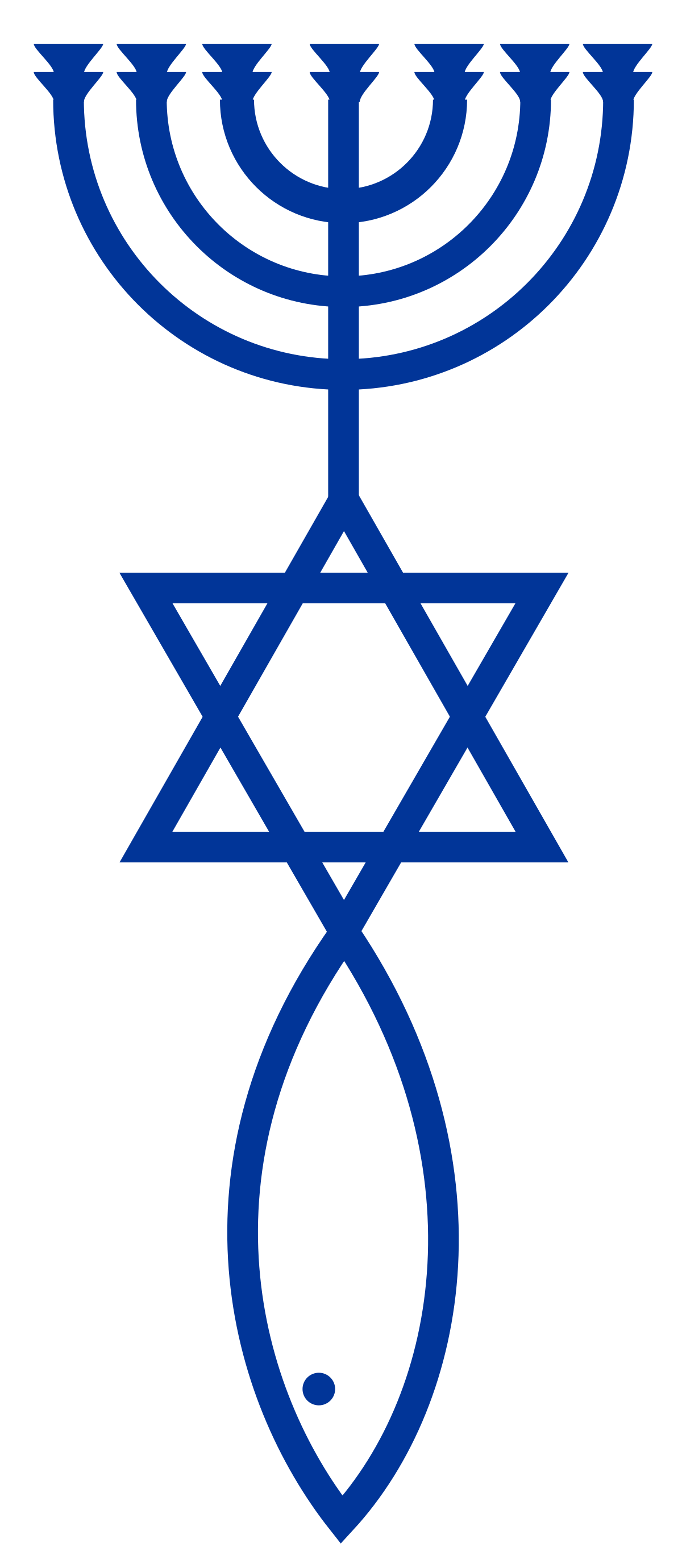 "A symbol that Messianic Jews believe was used to identify the first Messianic congregation, led by Yeshua (Jesus)'s brother Jacob in Jerusalem"A Magen David, with a Menorah above and a dead fish hanging below